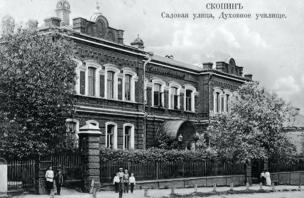 The old building of the college (up to 1918 - Religious school of Skopin)